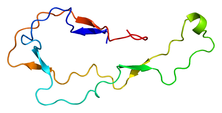 Structure of the CALR protein. Based on PyMOL rendering of PDB 1hhn.